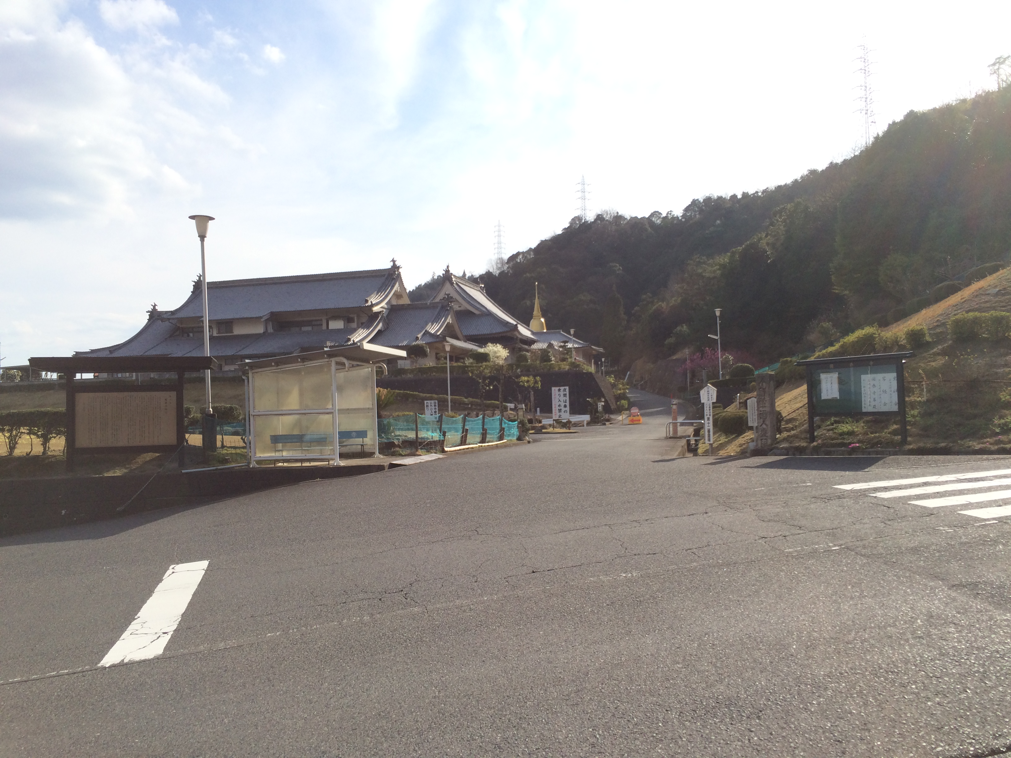 Kokutaiji Temple at Koi-ue, West Ward, Hiroshima City, Hiroshima, Japan